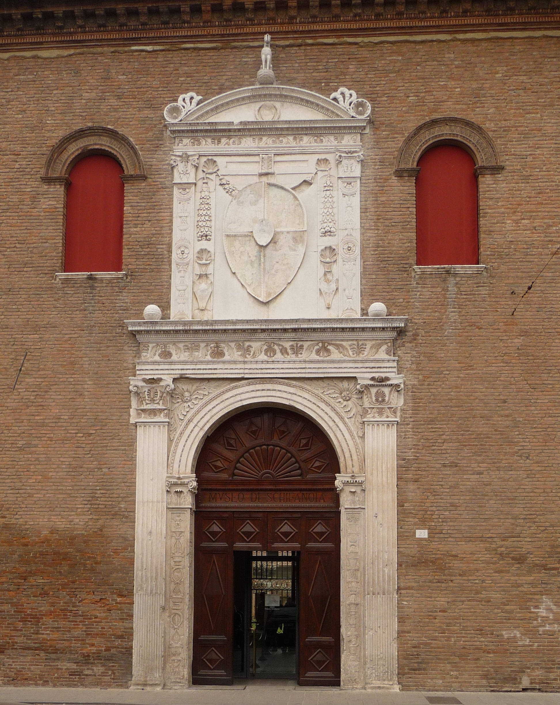 Palazzo Schifanoia in Ferrara, door